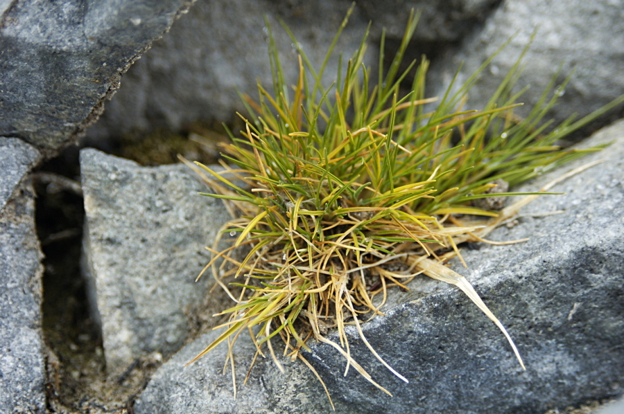 Antarctic hair grass at Petermann Island/ Antarctica